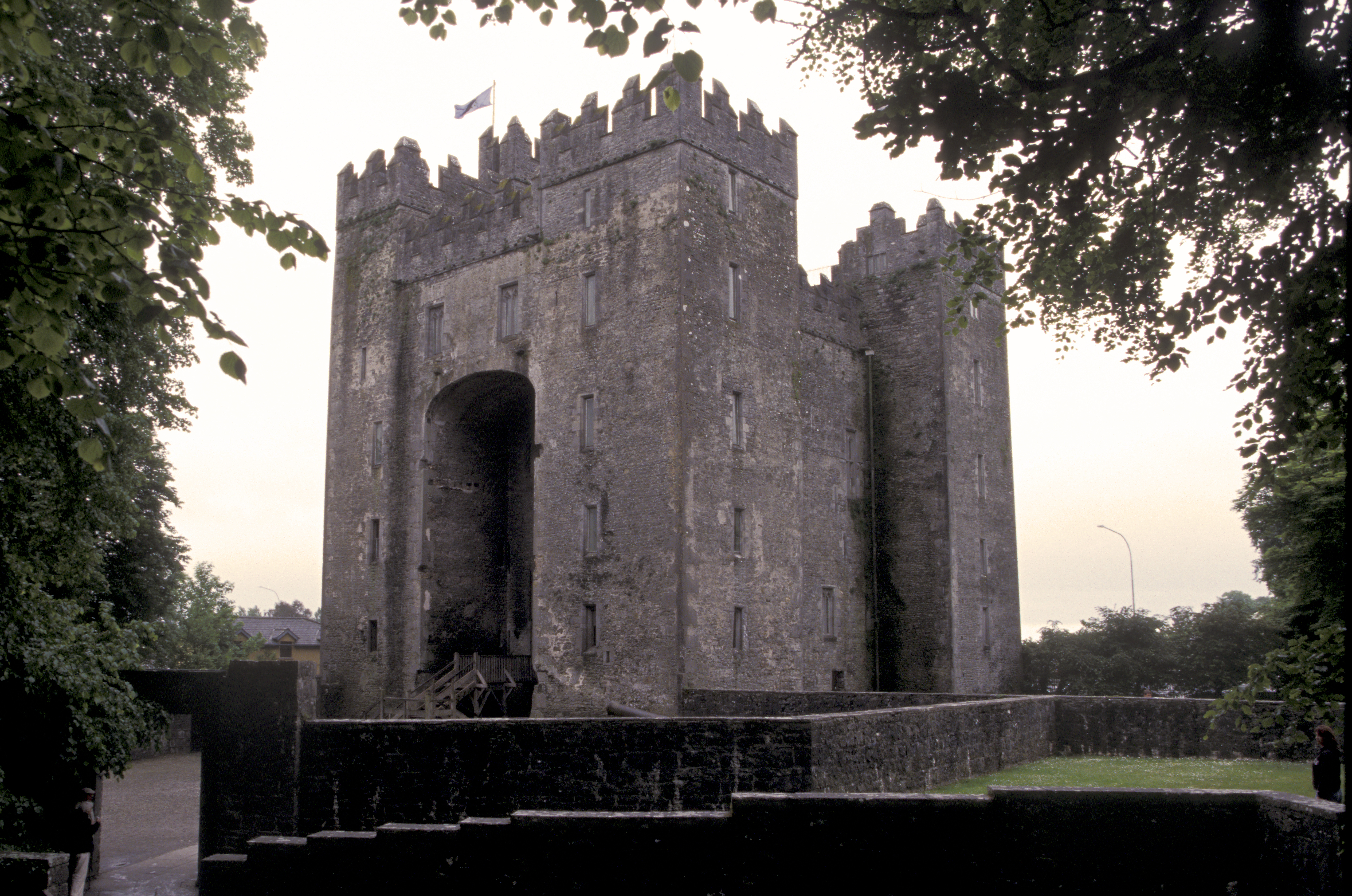 Bunratty Castle is a large tower house in County Clare, Ireland